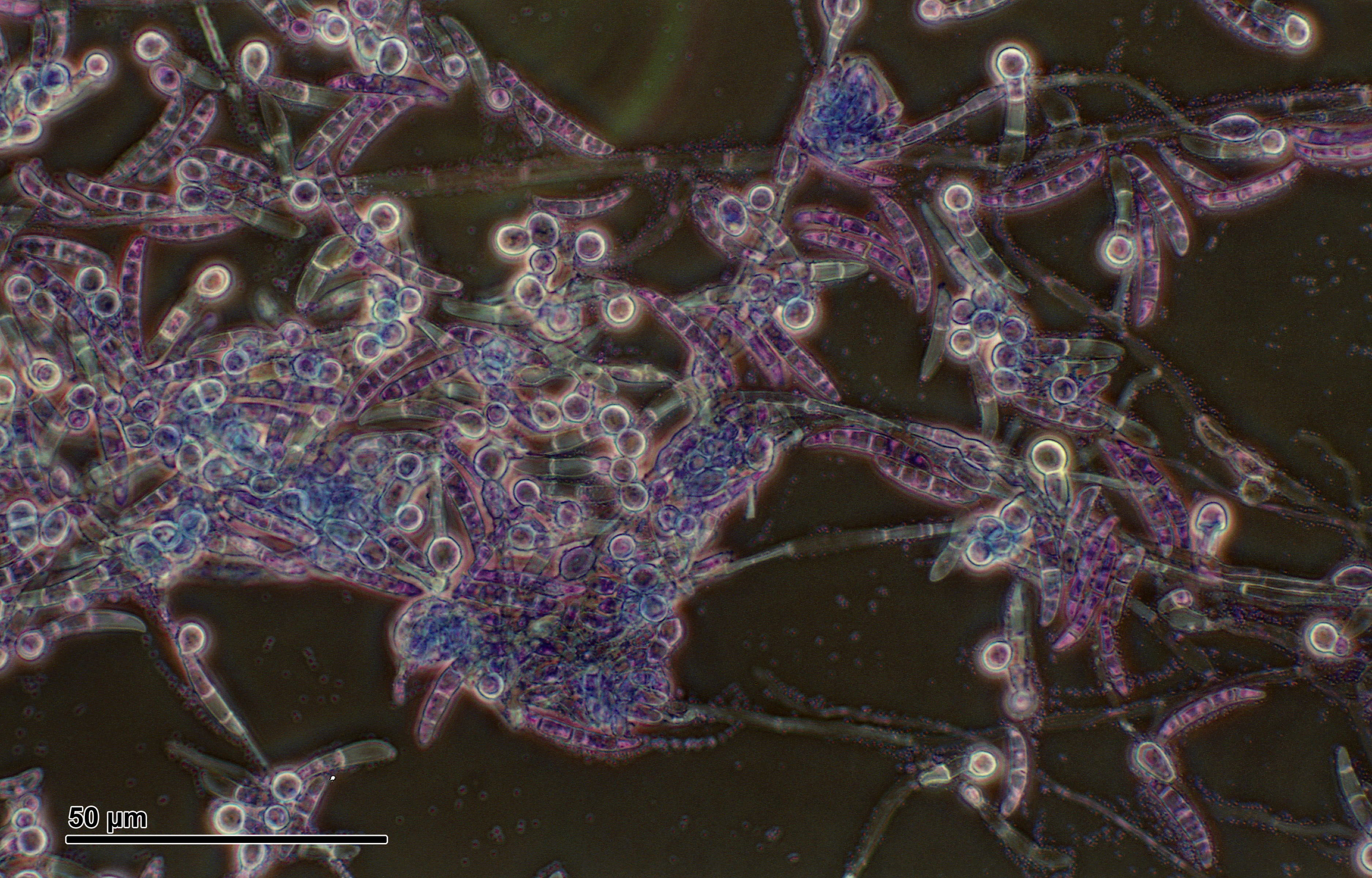 Pythium. Optical microscopy technique: Negative phase contrast. Magnification: 1200x (for picture width 26 cm ~ A4 format).